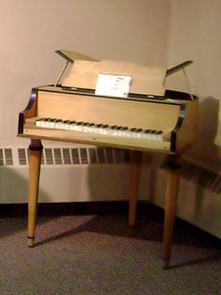 Wurlitzer Student butterfly (1930s) It may be original design of Wurlitzer 270 Butterfly Baby Grand Electric Piano (1980) (checked with Collection Checklist) Cantos Keyboard and synthesizer museum. Calgary AB. February 11, 2010. left to right